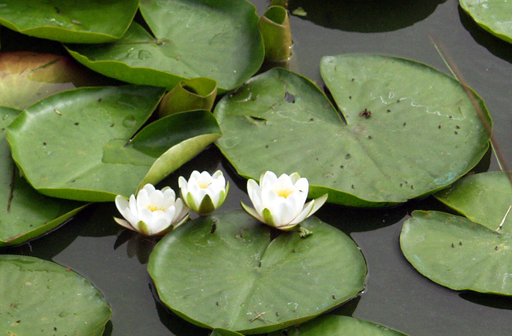 Water lily (Nymphaea alba) – at Domburg/Province Zealand/Netherlands